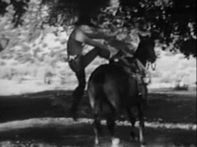 Snapshot from Sagebrush Trail (1933). Yakima Canutt (double of John Wayne) jumping onto a horse.